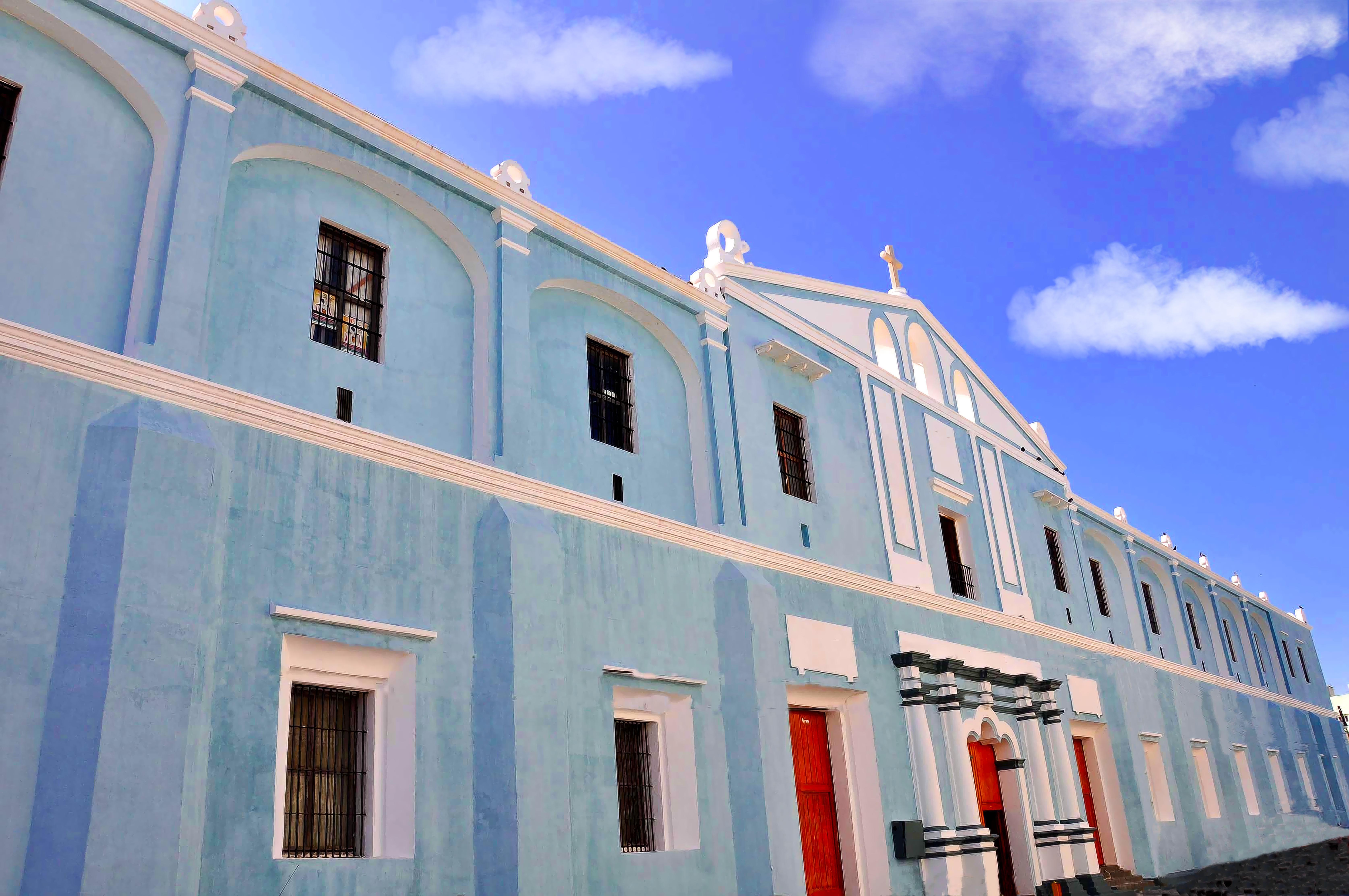 Fachada del Recinto Sede del Instituto Veracruzano de la Cultura IVEC